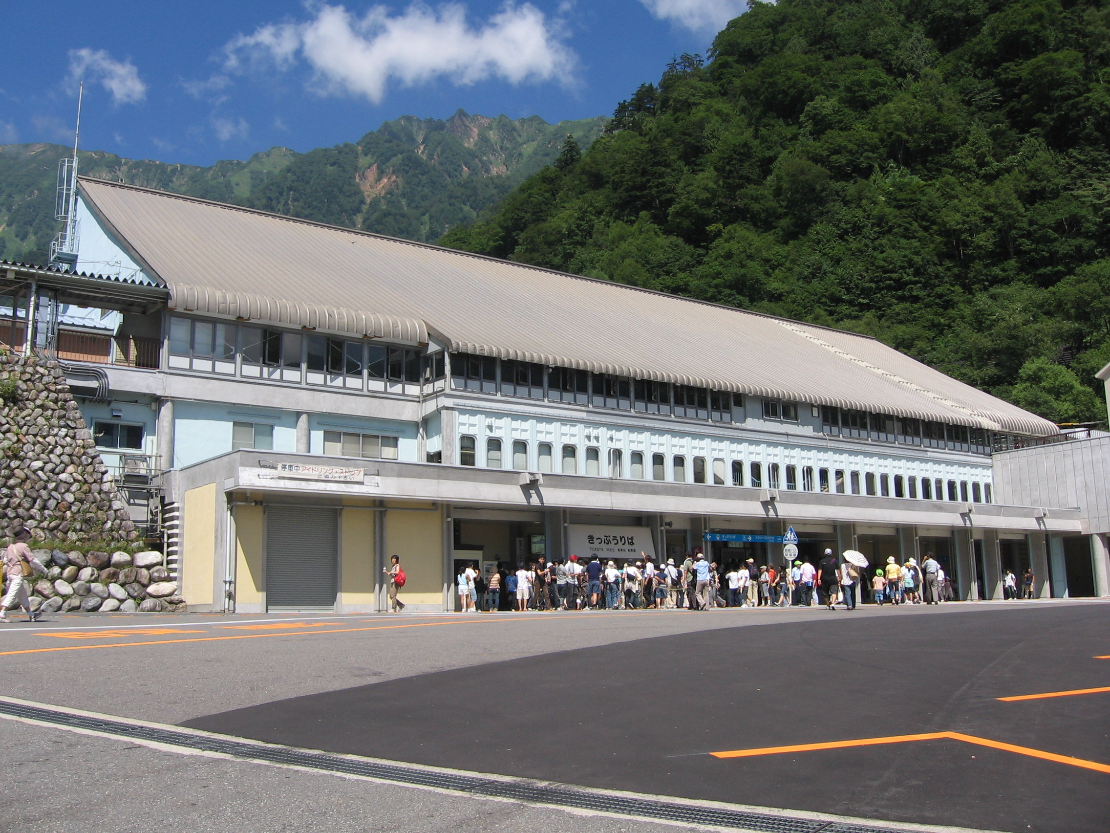 The station building of Ogisawa Station of Kanden Tunnel Trolleybus of Kansai Electric Power Company. In Kokuyurin, Omachi, Nagano, Japan.